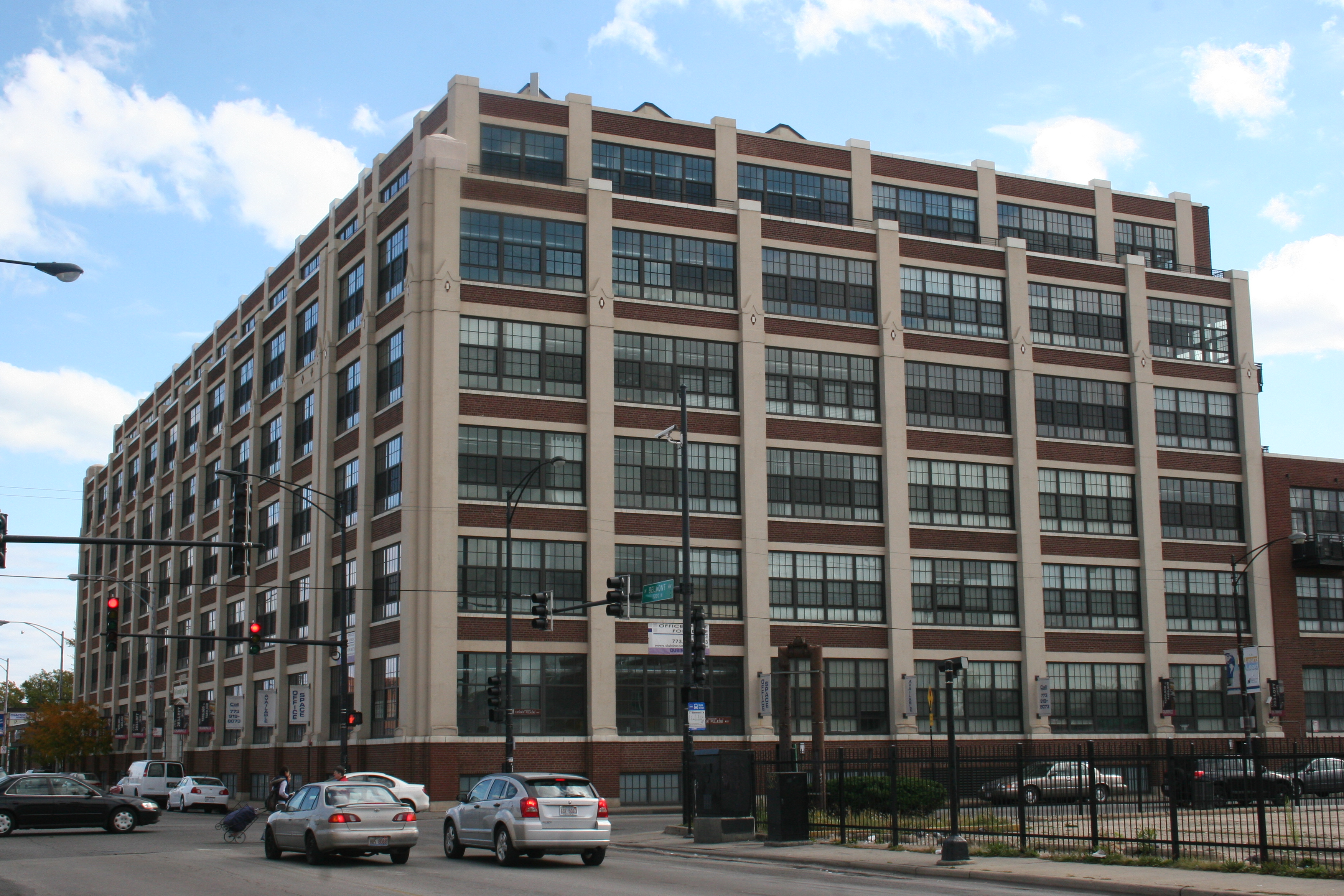 Florsheim Shoe Company Building in Logan Square, Chicago, IL